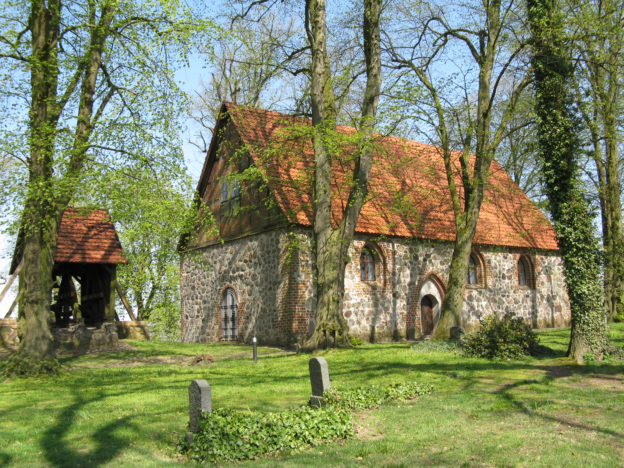 Church in Wamckow, disctrict Parchim, Mecklenburg-Vorpommern, Germany